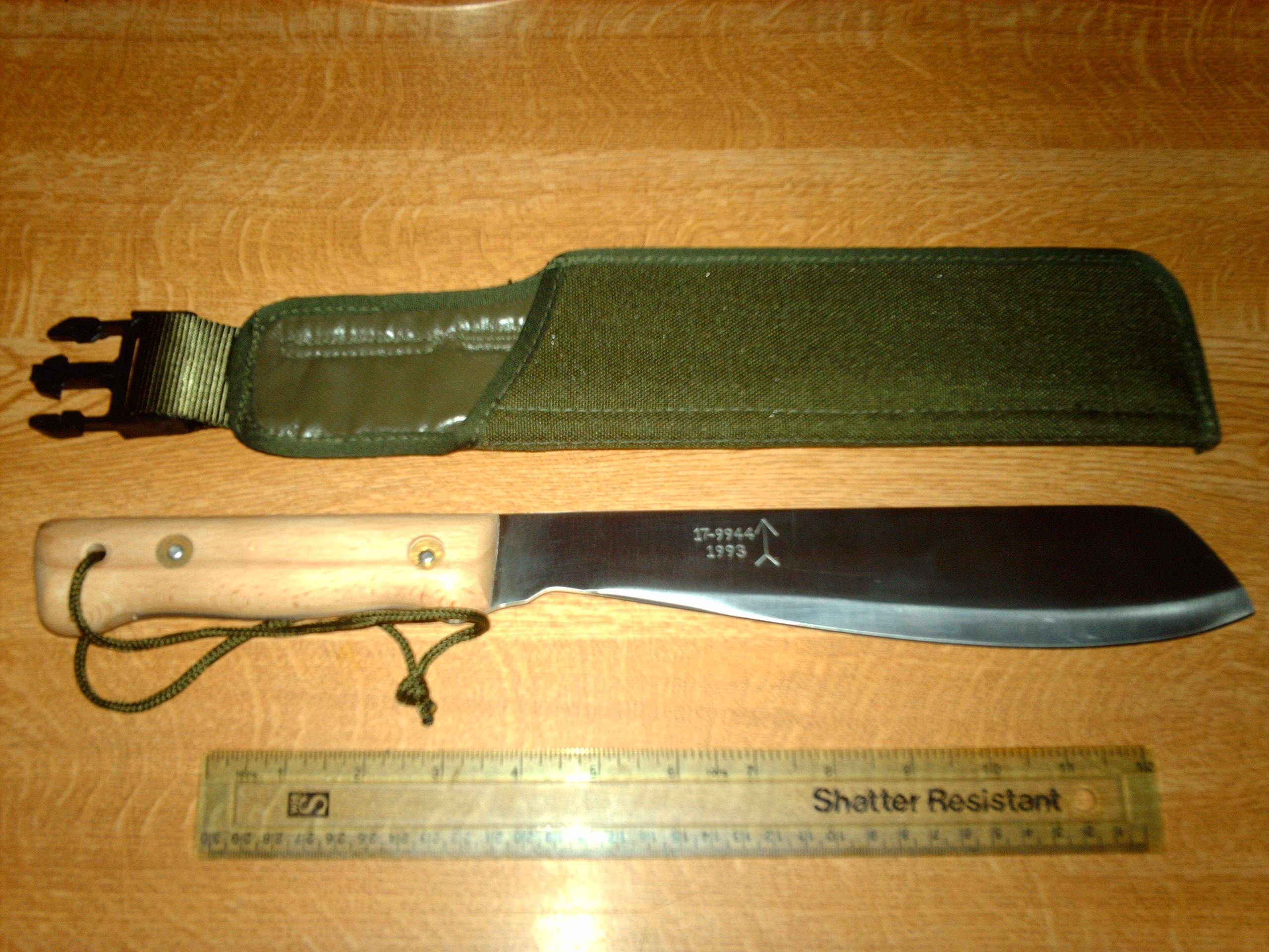 Golok copying the Martindale No 2 design